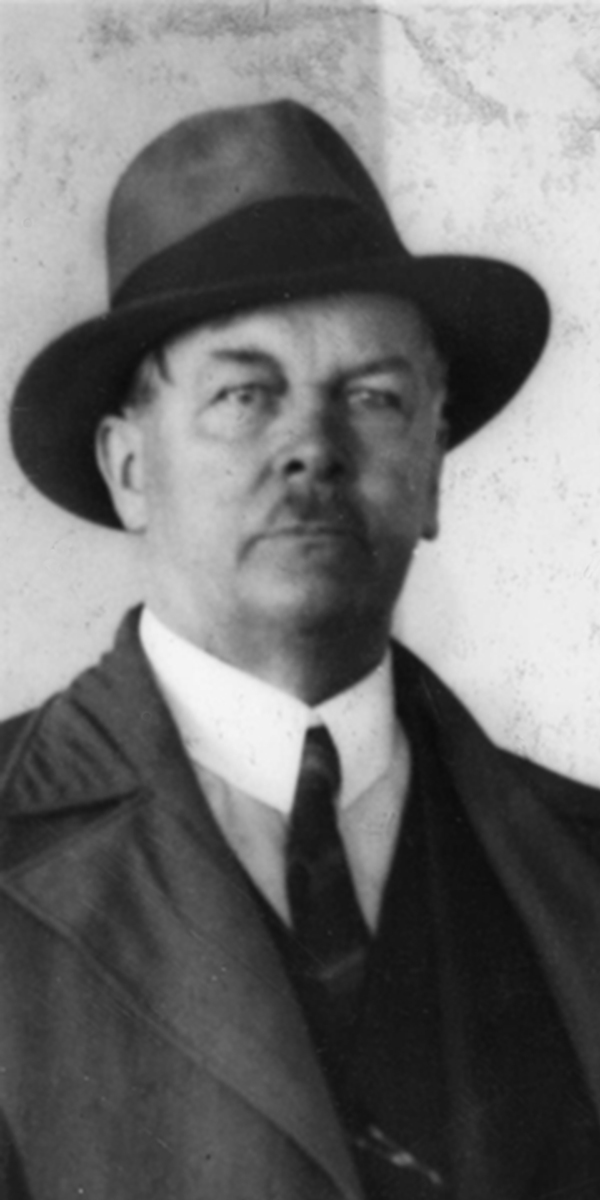 A circa-1935 head-and-shoulders image of the Norwegian artist Per Deberitz